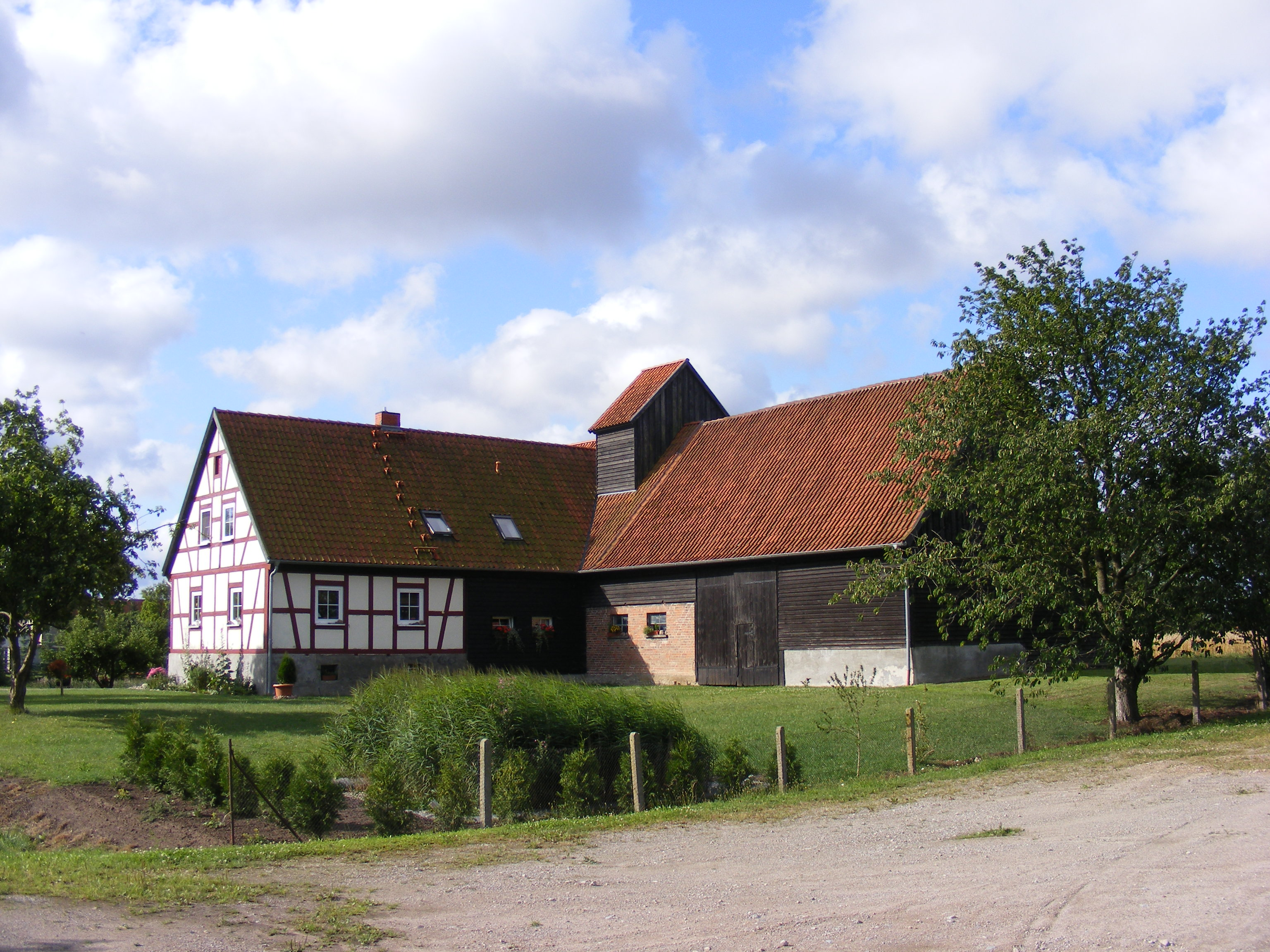 "Winkelhof" in Swabian style in Schwabendorf, Mecklenburg